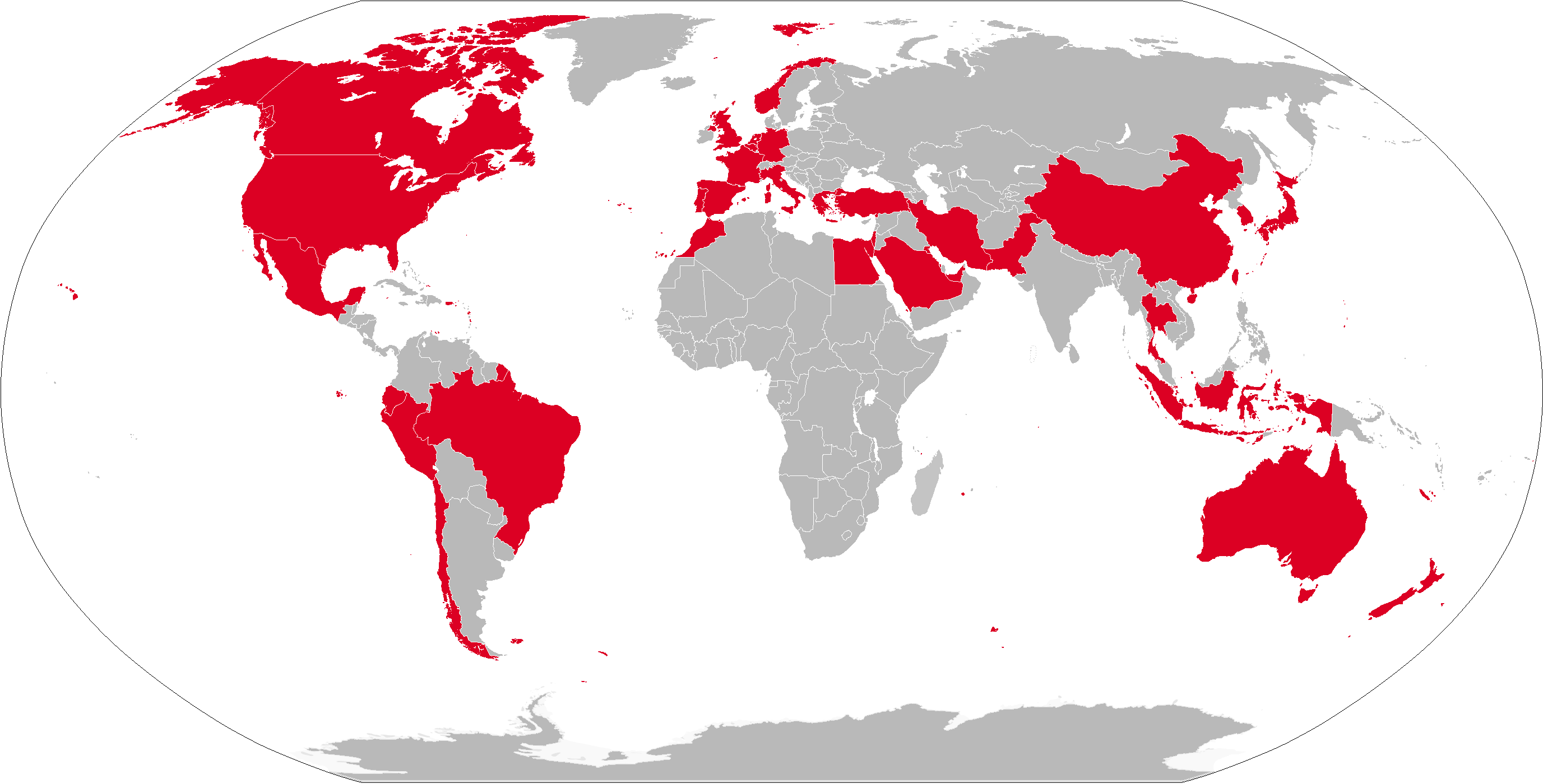 Map with former Mark 46 operators in red